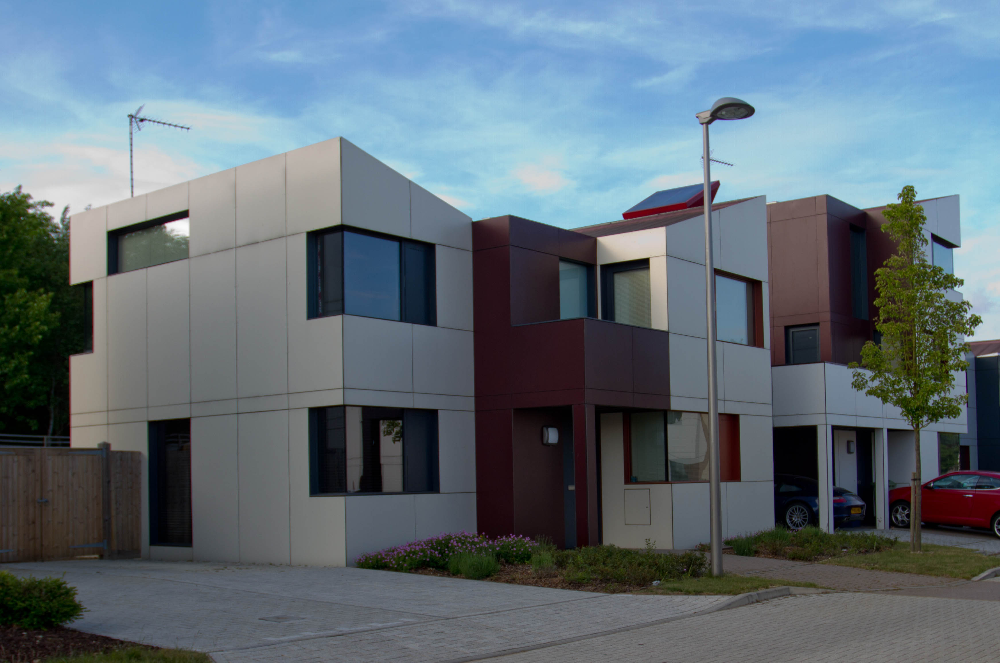 12 Oxley Woods, Milton Keynes